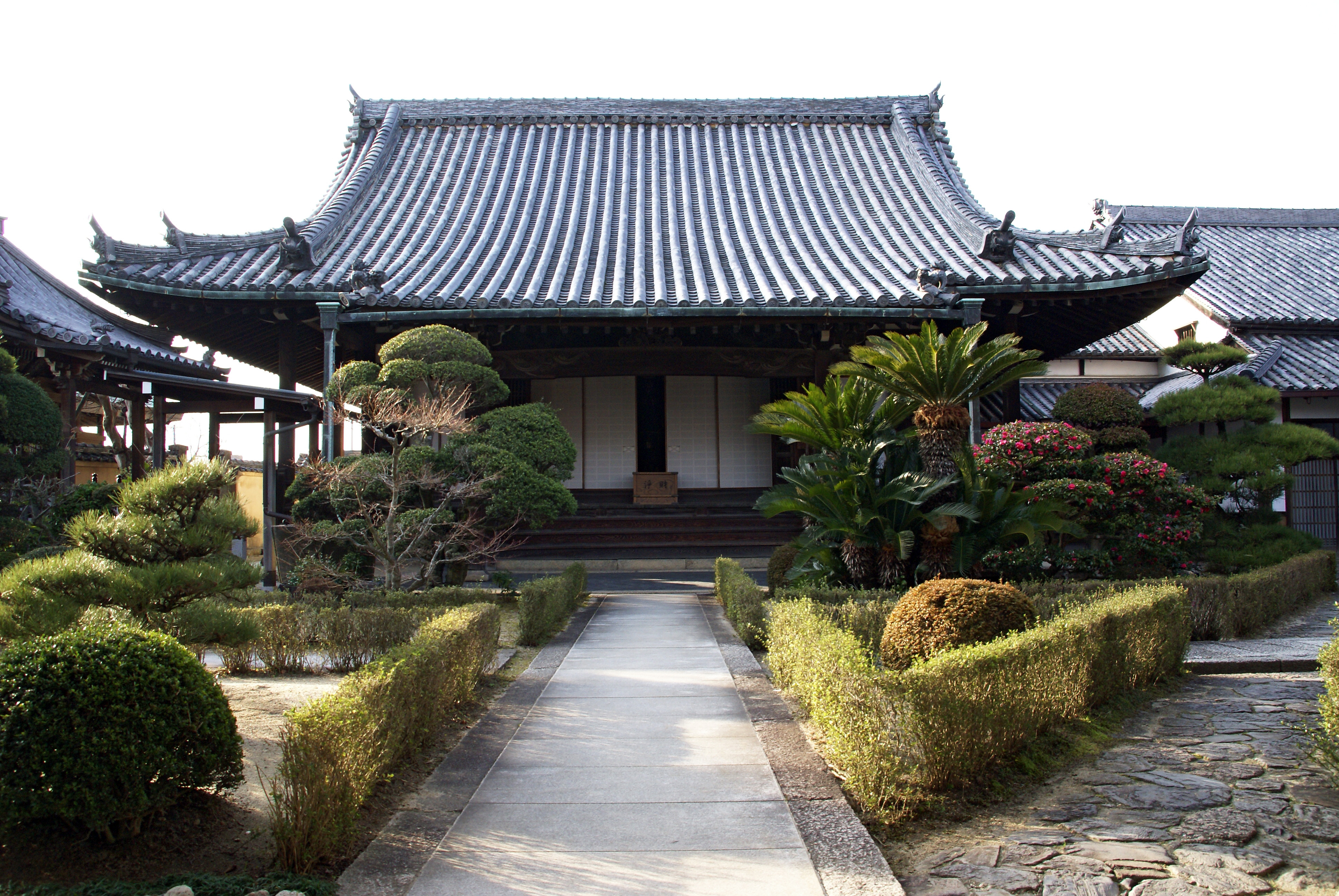 Saihoin in Taishi, Osaka prefecture, Japan